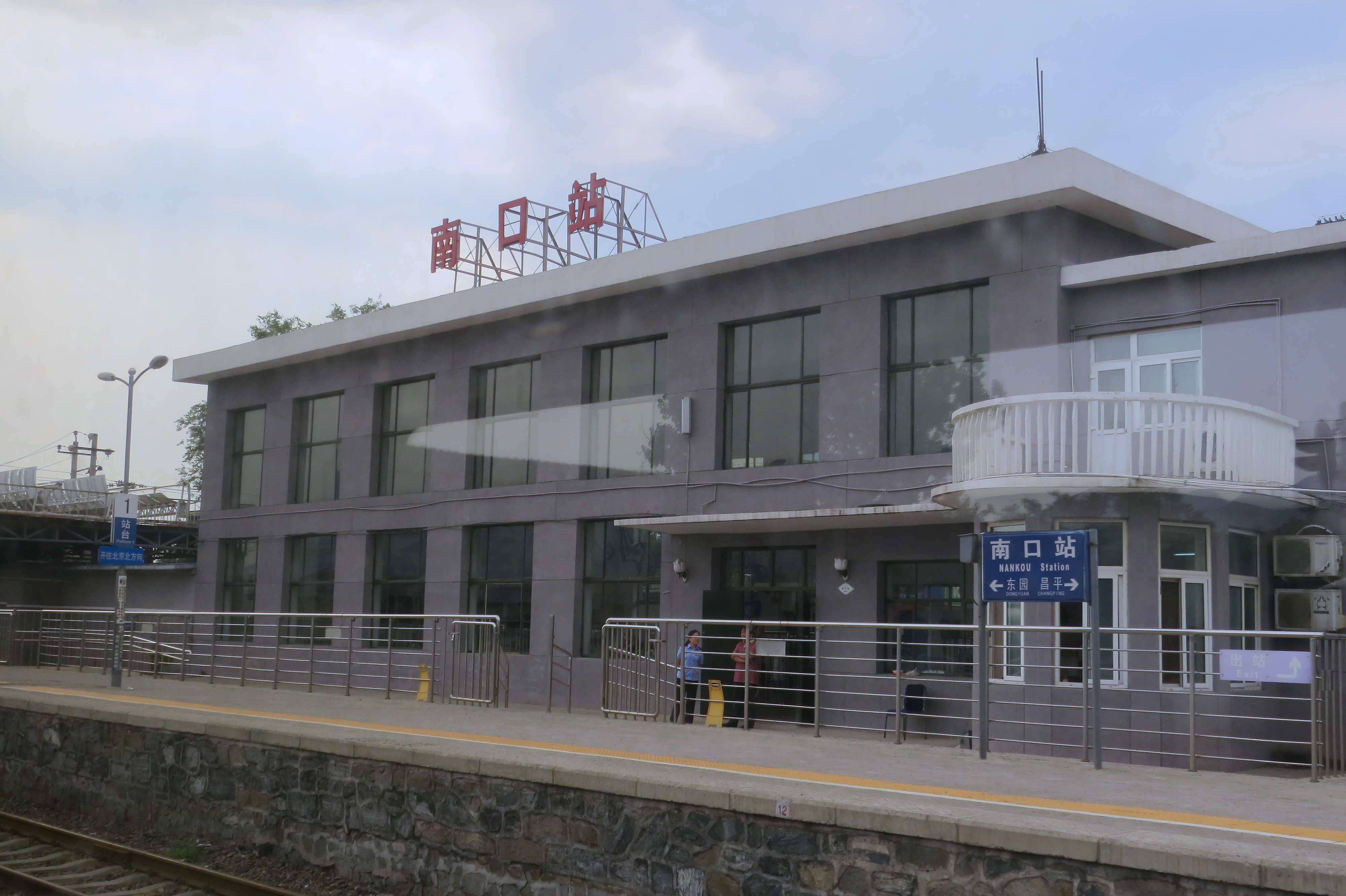 S287 has a stopover here.